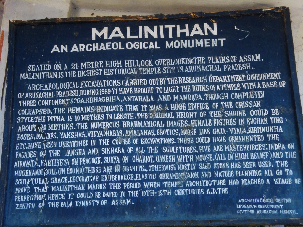 Archeological Survey of India Board